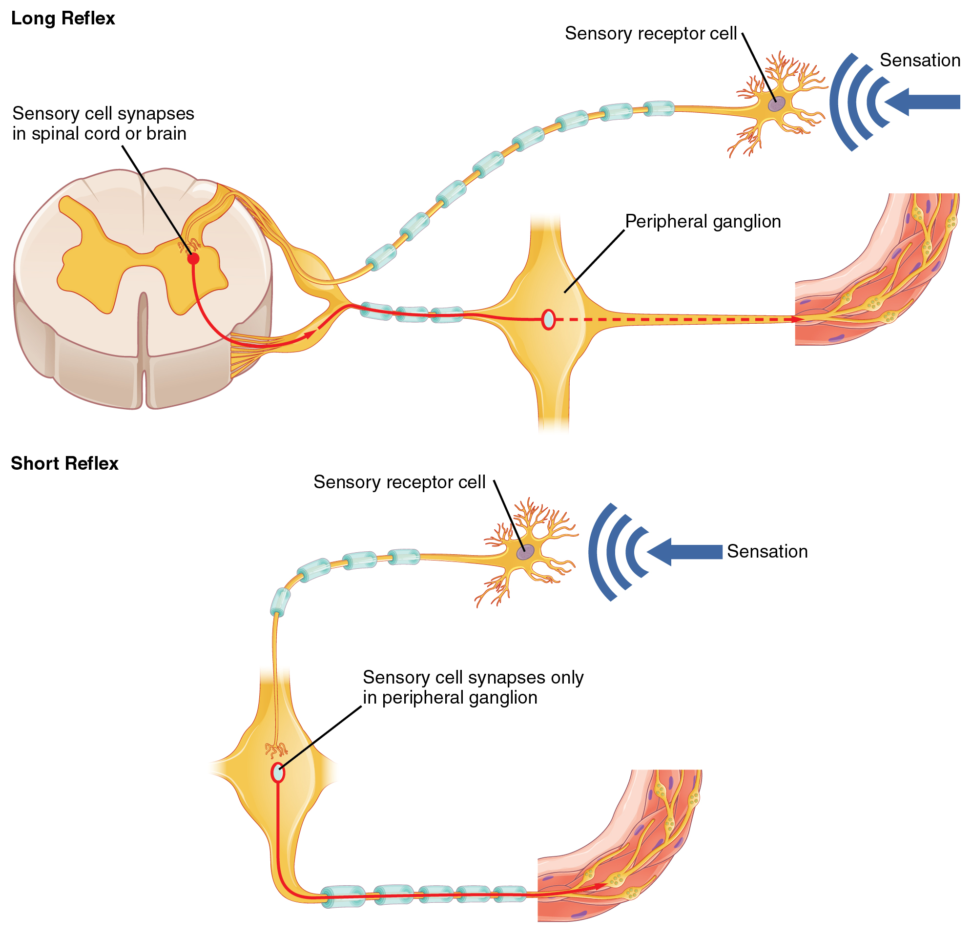 Illustration from Anatomy & Physiology, Connexions Web site. Jun 19, 2013.